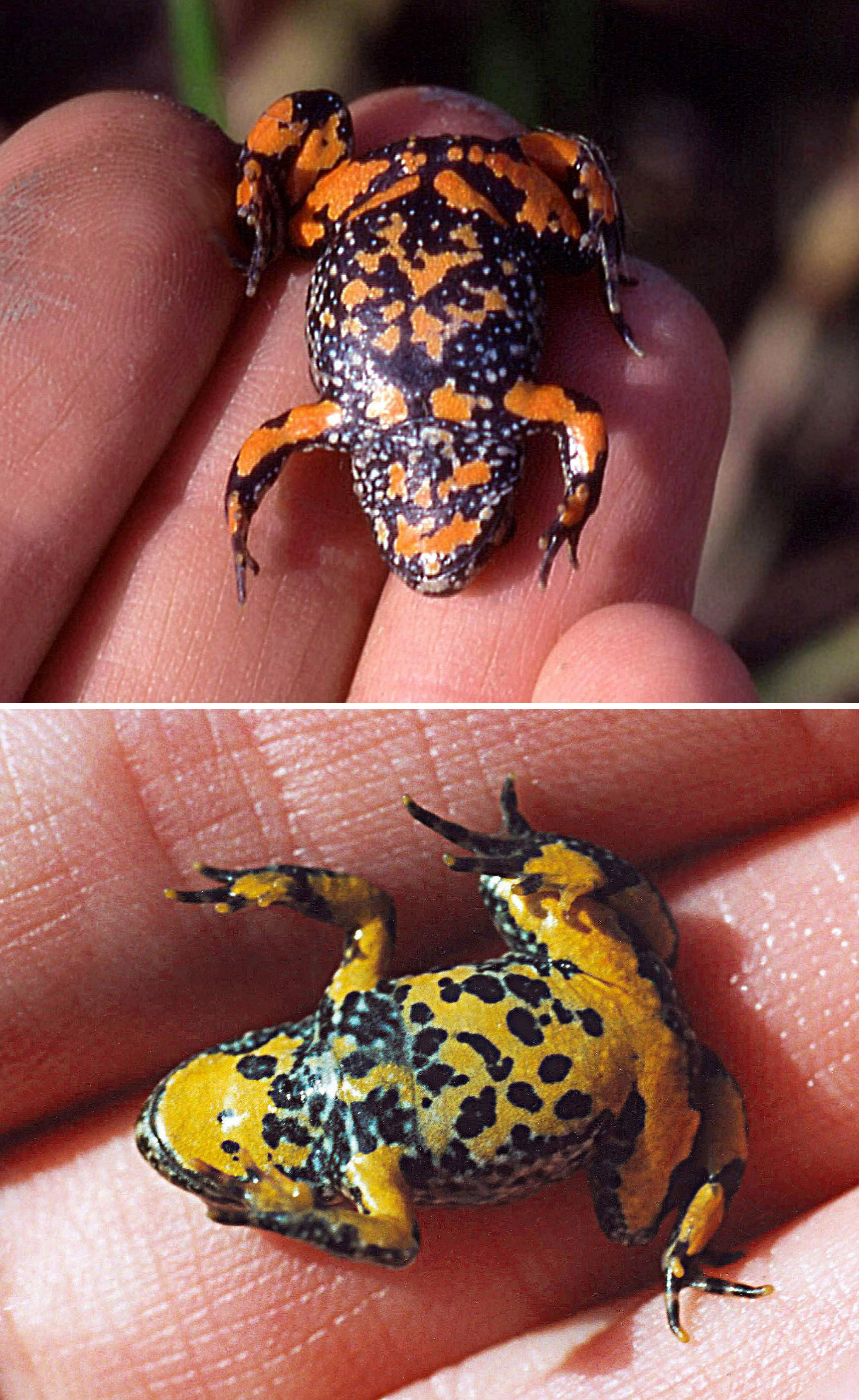 Comparison between two juvenile specimen of the European Fire-bellied Toad (Bombina bombina; top) and the Yellow-bellied Toad (Bombina variegata; bottom). Both have been turned on their back to demonstrate the coloured and patterned ventral side.